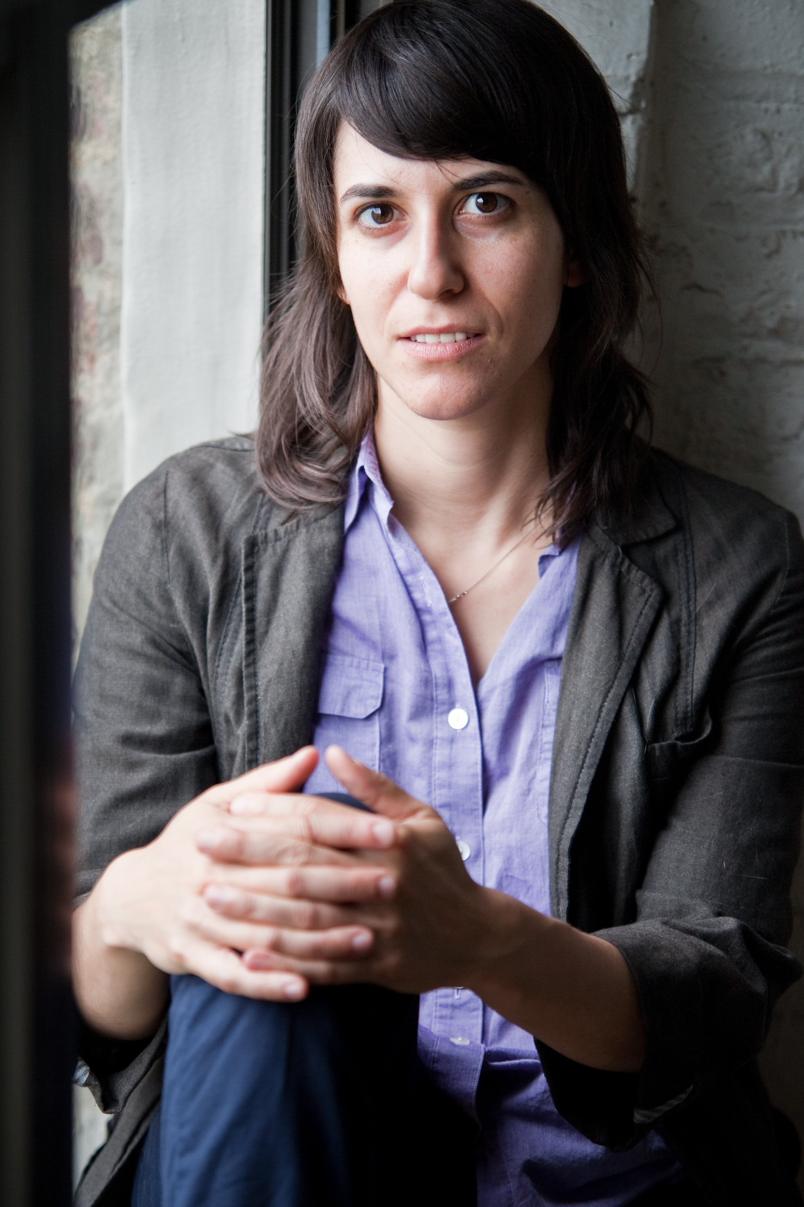 Color photograph of Sara Marcus in Brooklyn.